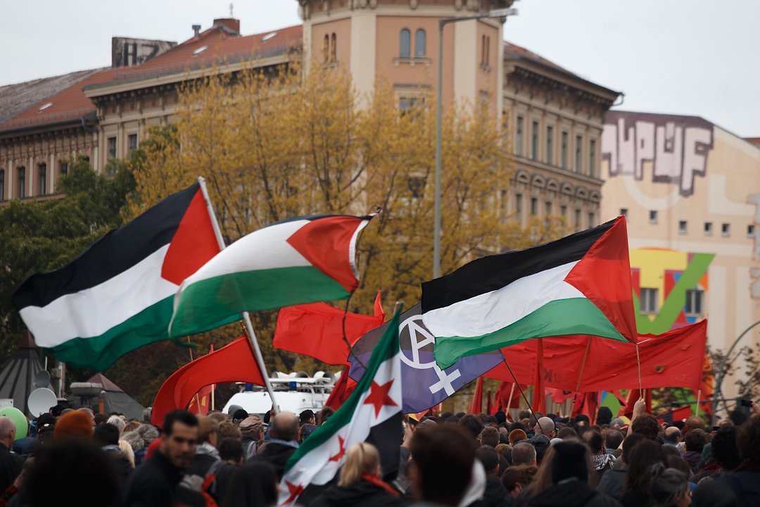 Activists holding up flags of Palestine during the International Solidarity Demo protest in Kreuzberg, Germany on May 1.